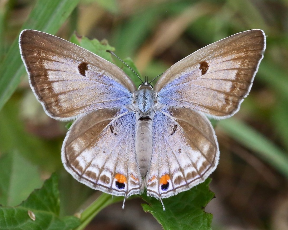 South Africa, Mpumalanga, Louw's Creek